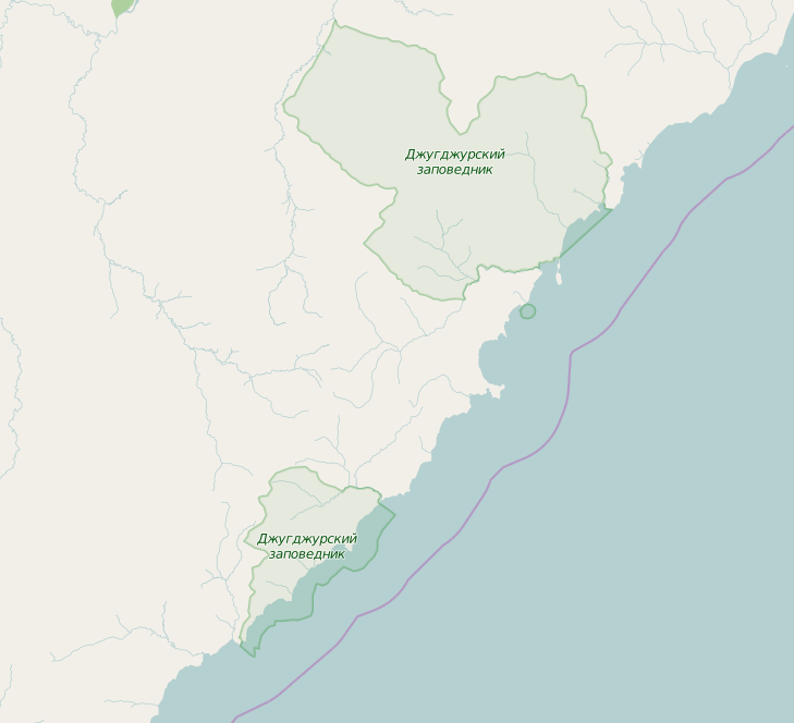 Dzhugzhursky Nature Reserve Boundaries, showing two sections on the north coast of the Okhotsk Sea